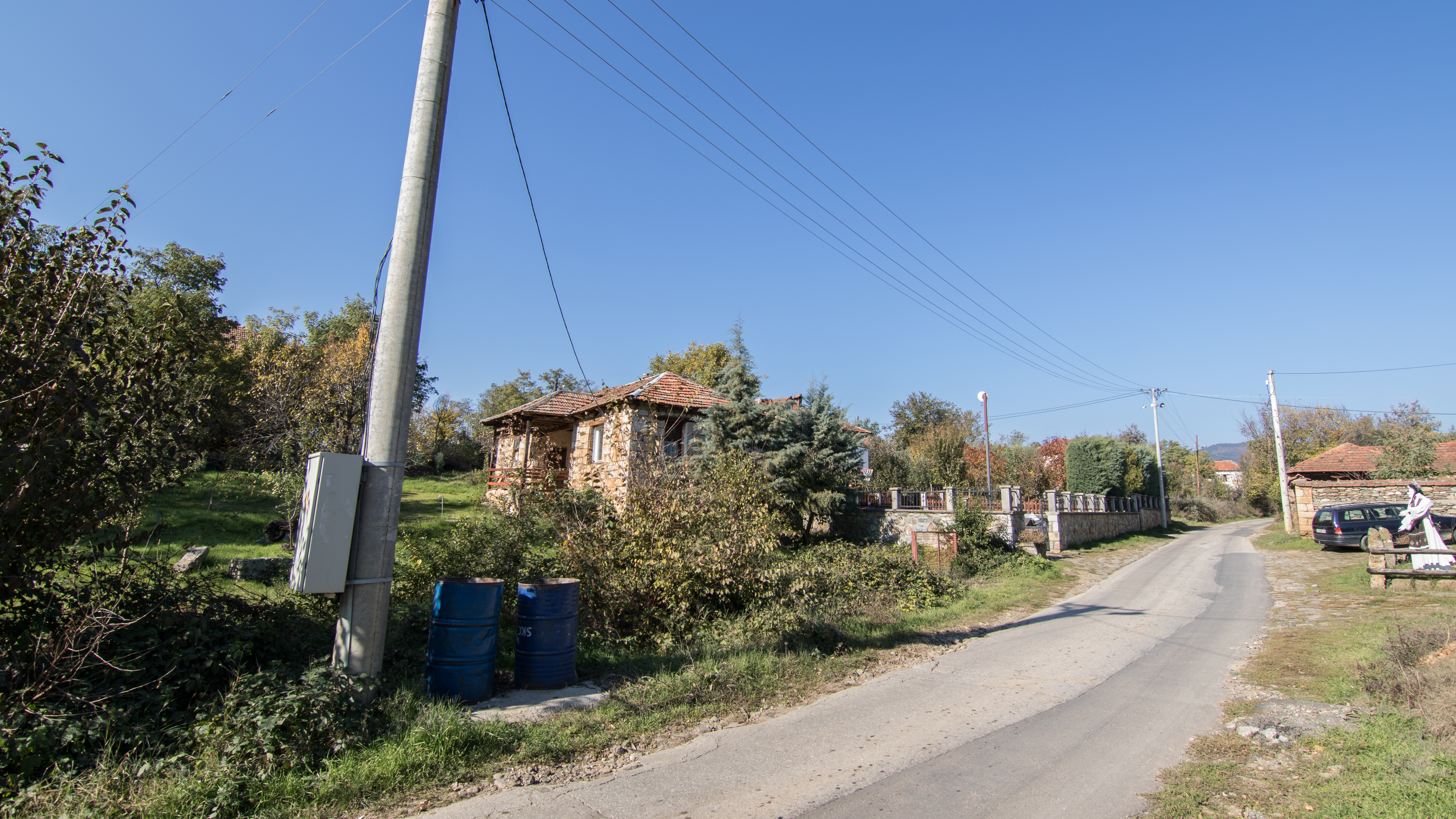 Part of the village Rankovce